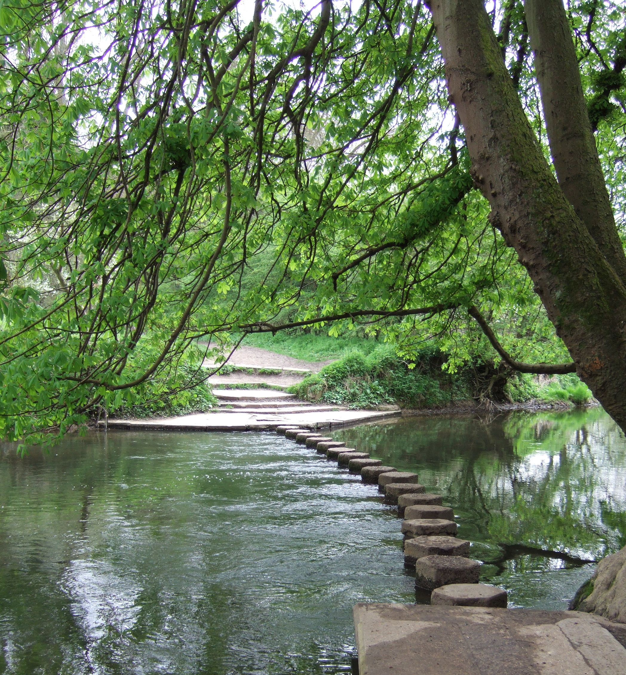 The Stepping Stones Crossing on the River Mole that is part of the North Downs Way